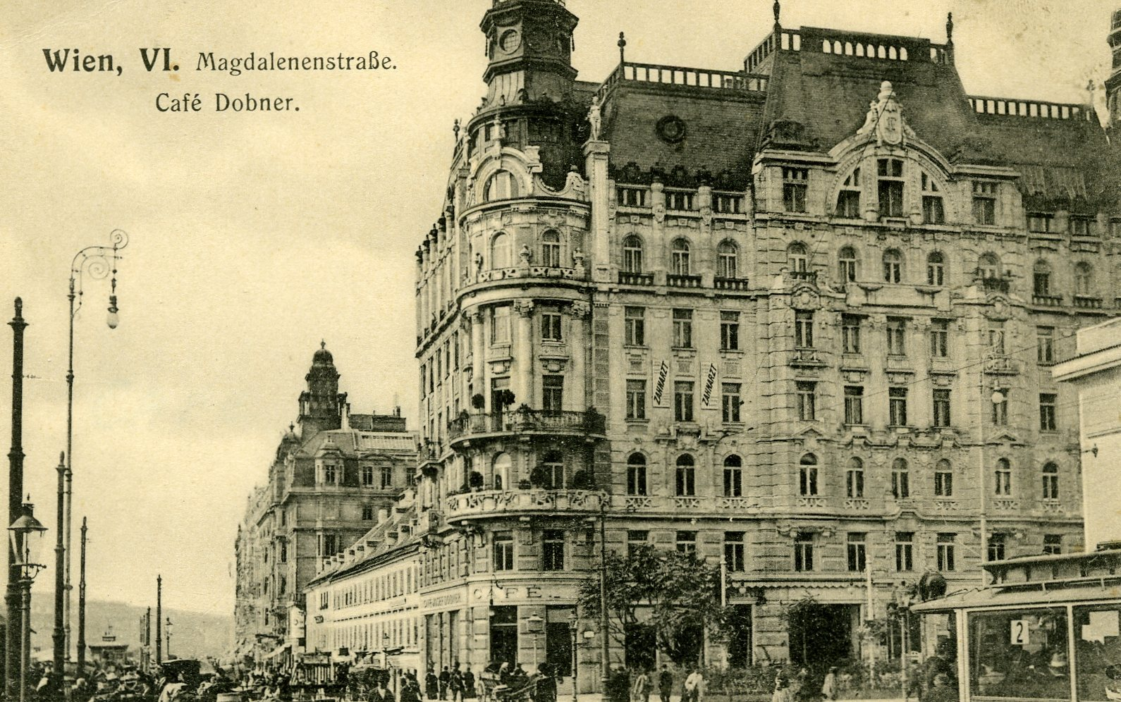 Wienzeile and Naschmarkt around 1905